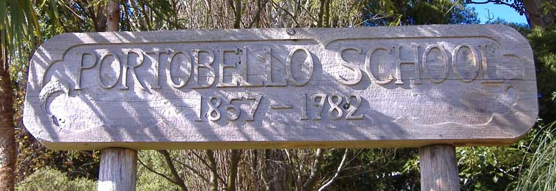 The Portobello School Sign, at the bottom of the driveway.